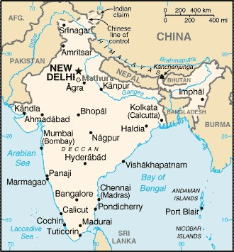 Map of India with marked the position of city Muttra (Mathura)